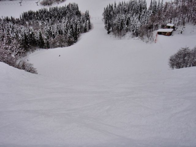 zao onsen ski area (YAMAGATA,JAPAN)